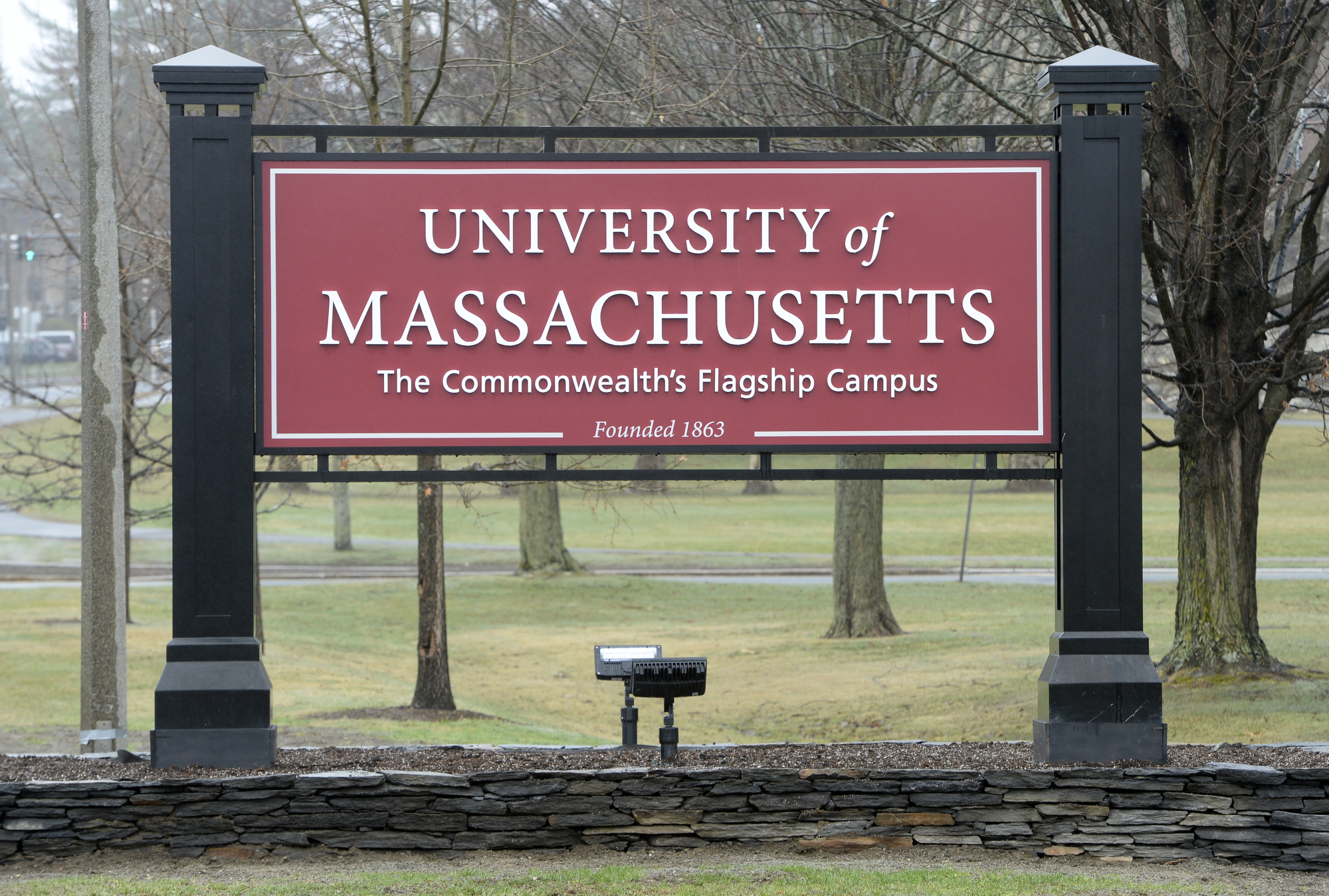 The west entry sign on the campus of the University of Massachusetts Amherst.